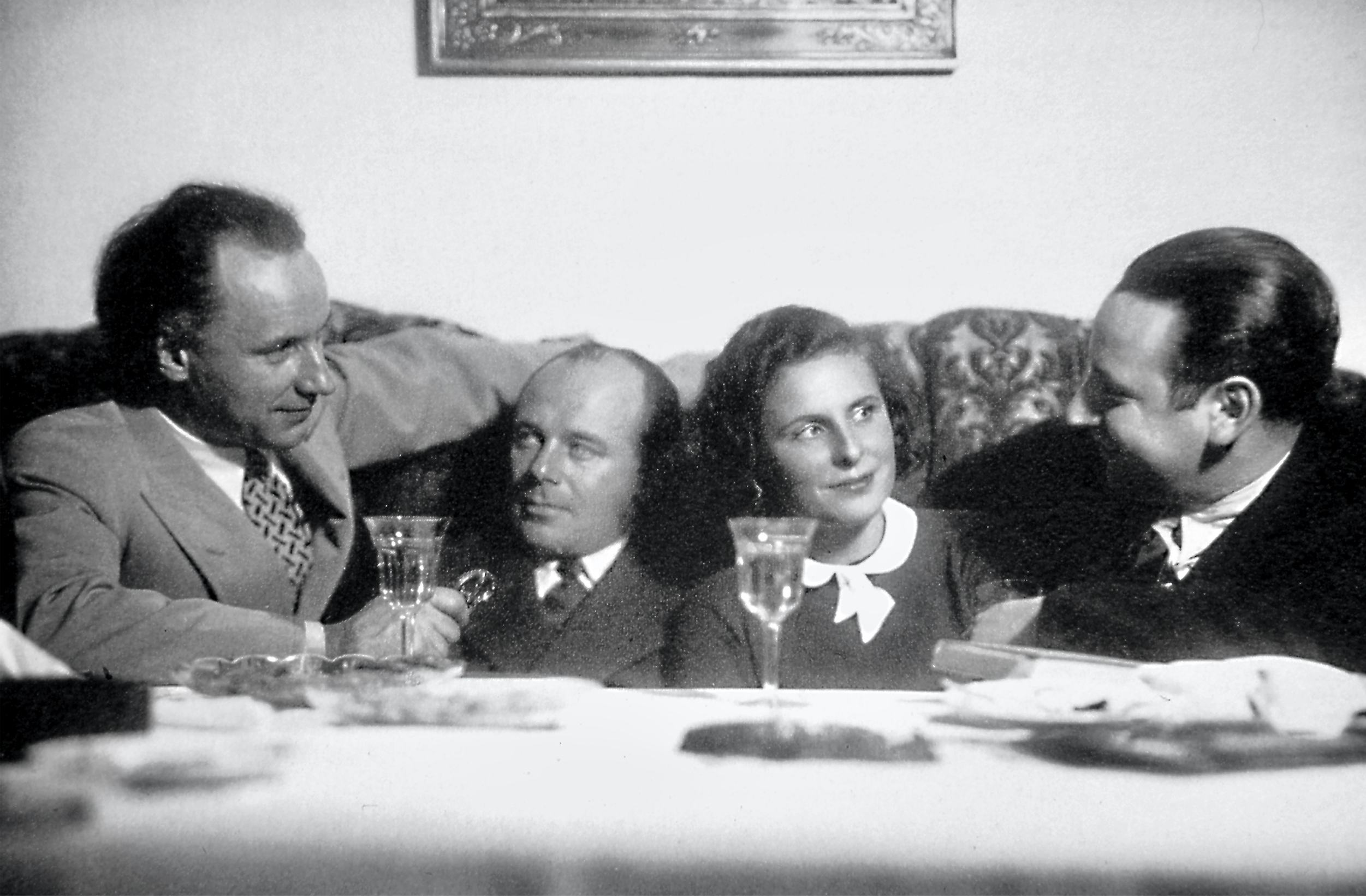 The German film director Arnold Fanck (1889–1974), the German aviation ace Ernst Udet (1886–1941), the German film actress (and later film director) Leni Riefenstahl (1903–2002), and the German-American film producer and actor Paul Kohner (1902–1988)